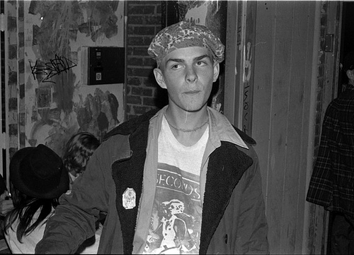 Photograph taken of 'Lint' (Tim Armstrong) inside the club Gilman. 1987.